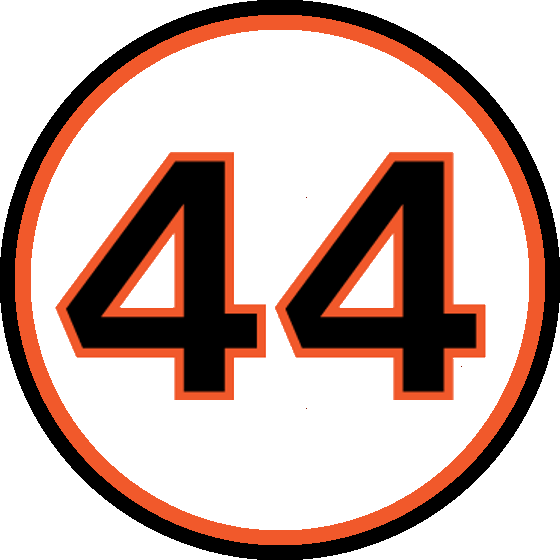 SF Giants retired number placard as shown inside stadium